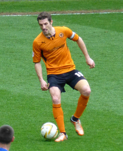 Sam Ricketts - Wolverhampton Wanderers vs Peterborough United (05/04/2014)